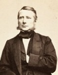 Hendrik Pontoppidan af Constantinsborg c. 1850